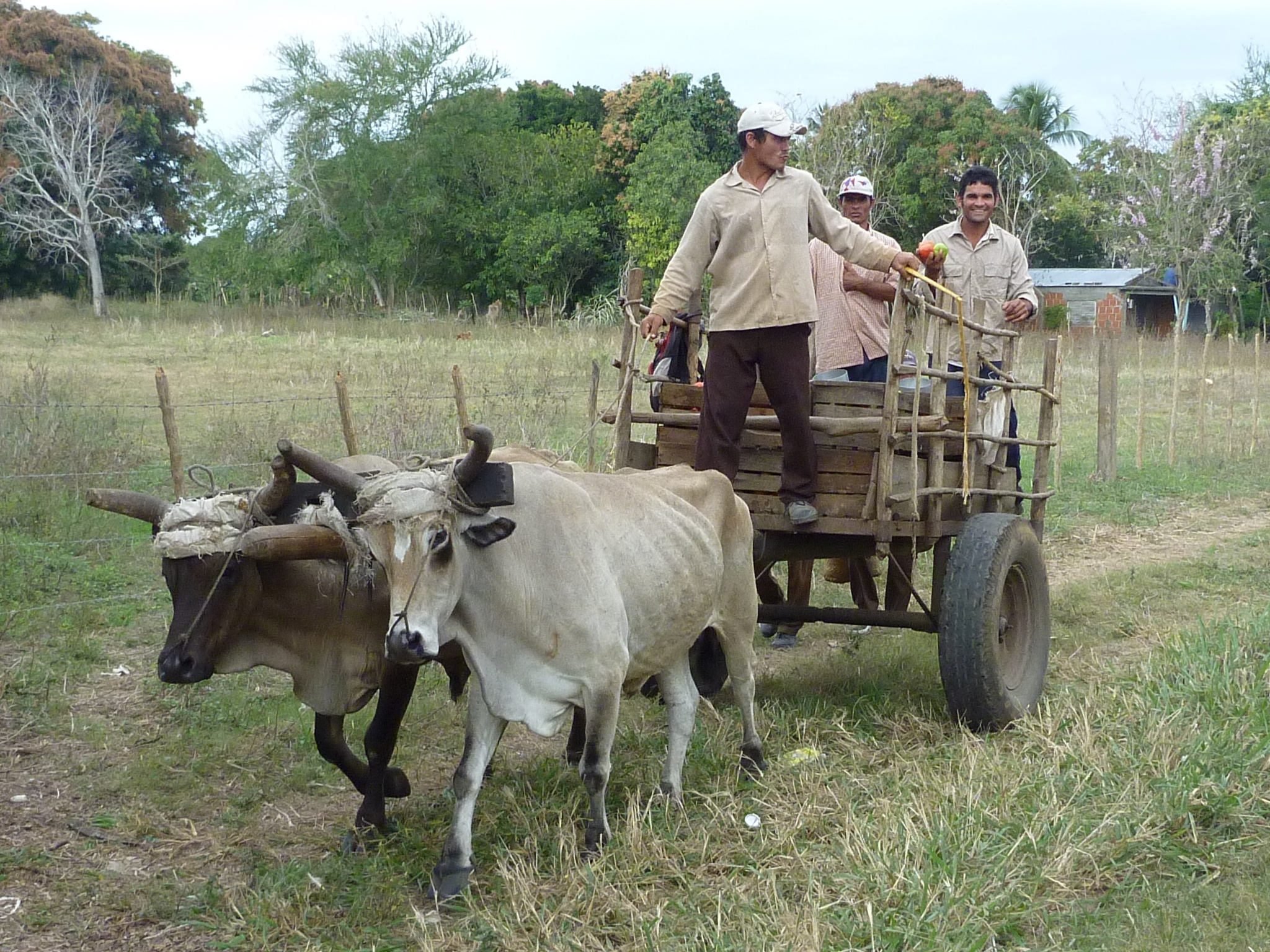 Ox-drawn cart in Cuba.